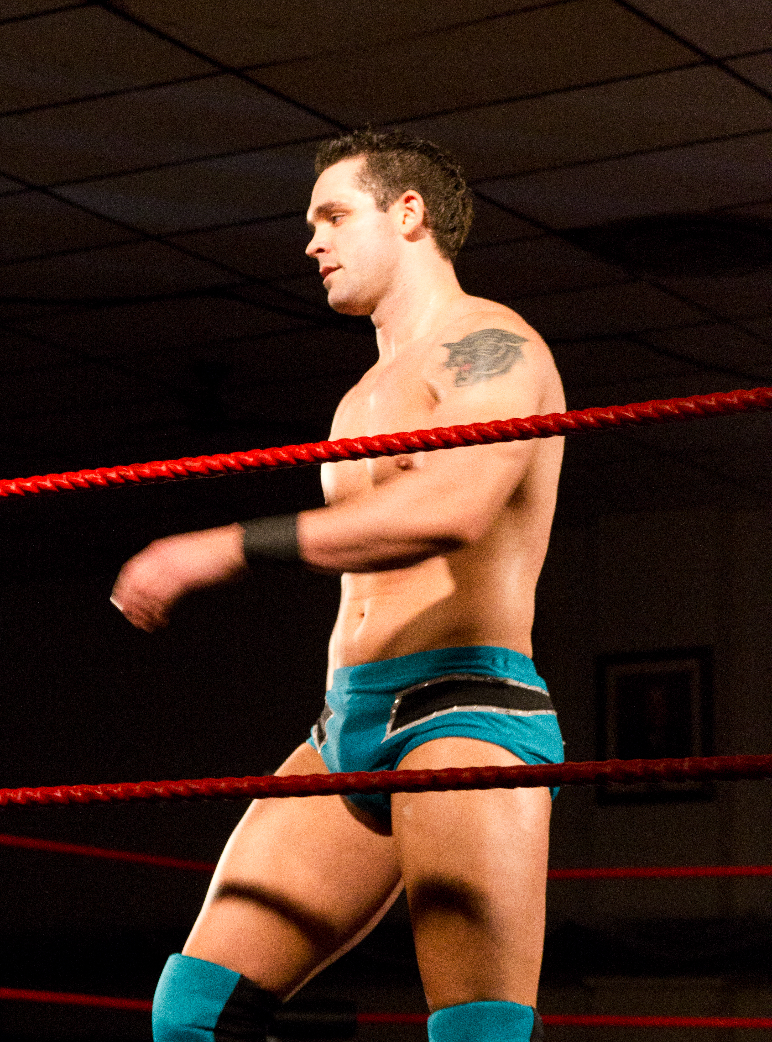 Canadian wrestler Shawn Spears at an TCW independent show in Kitchener, Ontario